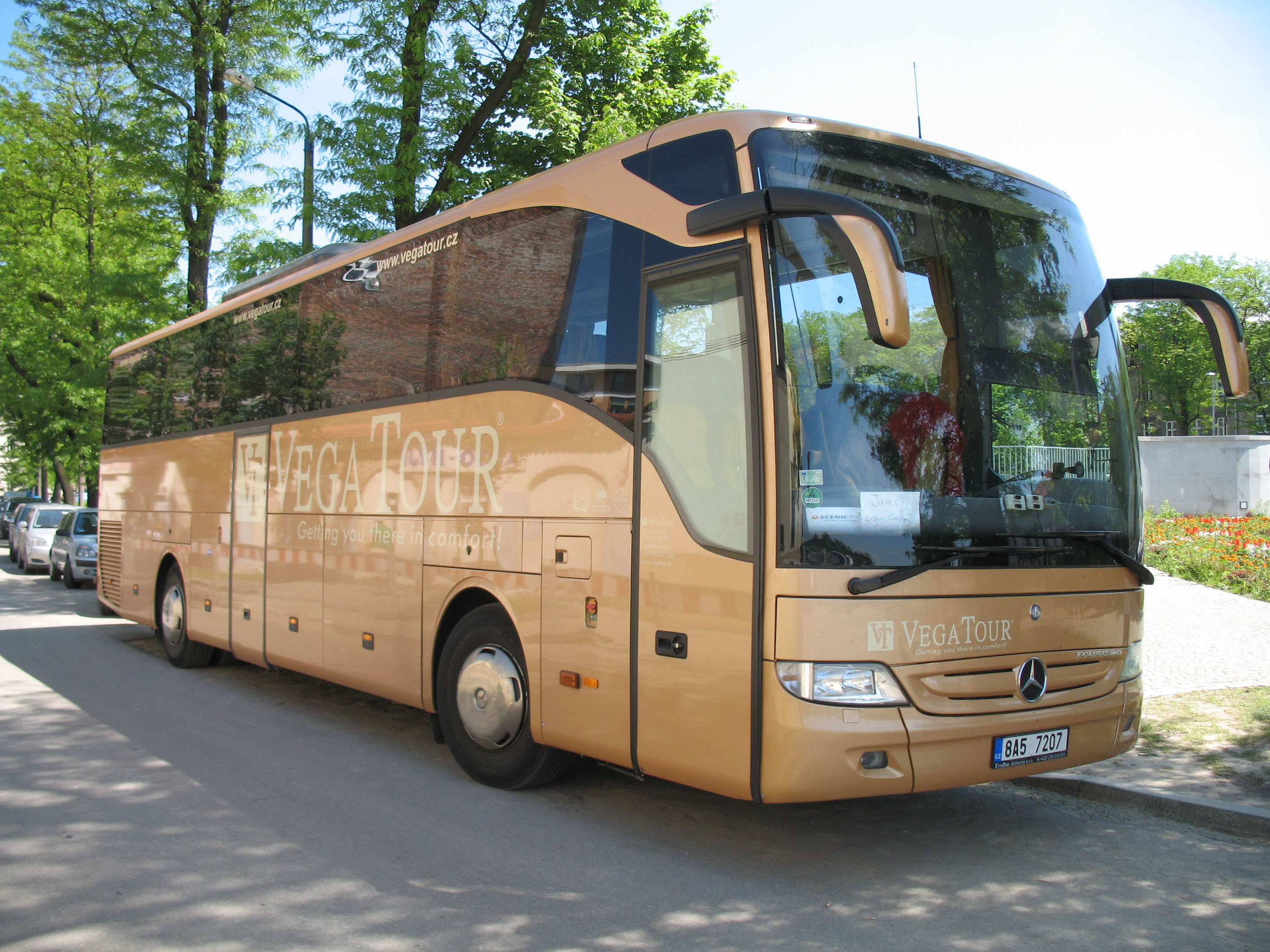 Mercedes-Benz Tourismo coach from, Prague in Czech Republic, in Kraków, Poland. Vega Tour Prague operator.